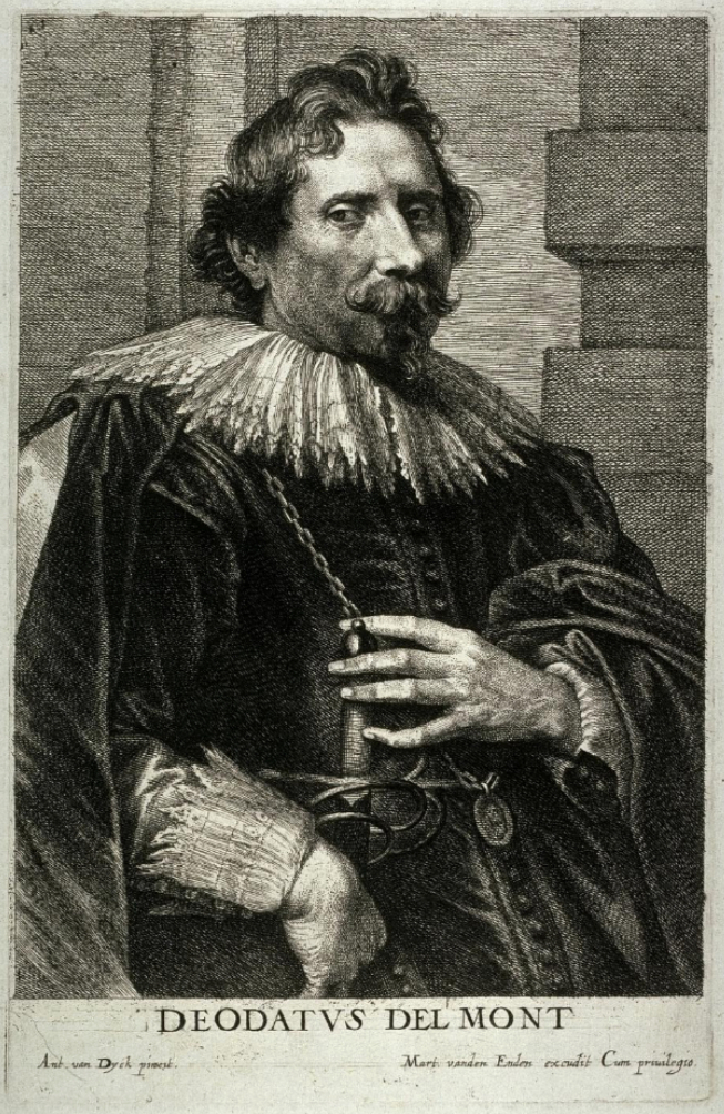 Portrait of Deodatus Delmont, engraving by Lucas Vorstermans